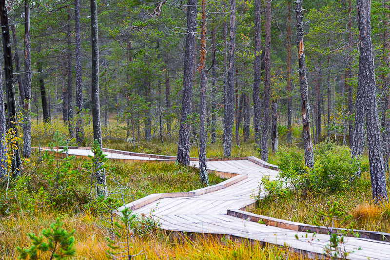 Walking path in Hamra national park, close to the main entrance.